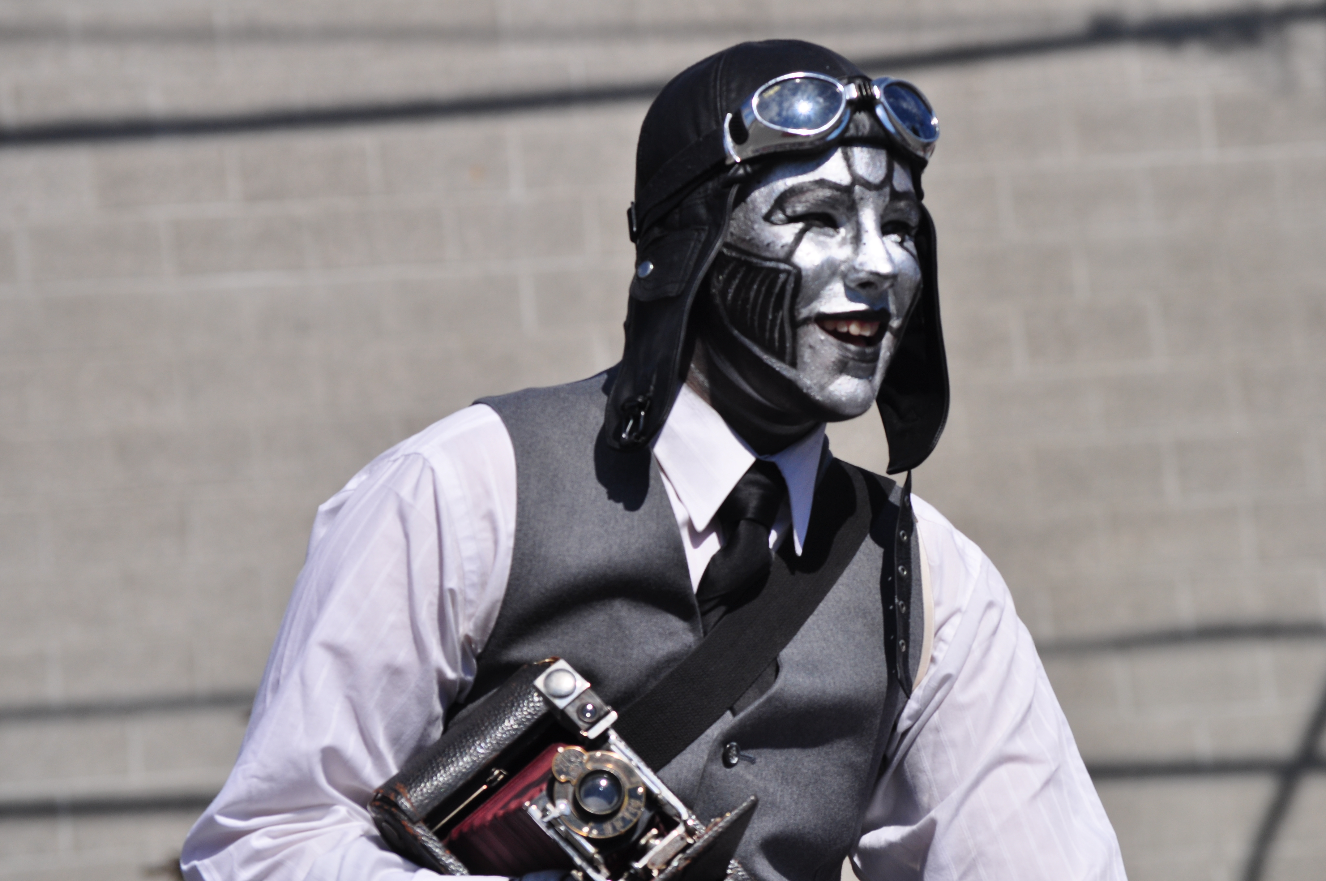 Part of the steampunk contingent, Fremont Solstice Parade, Fremont, Seattle, Washington, June 22, 2013